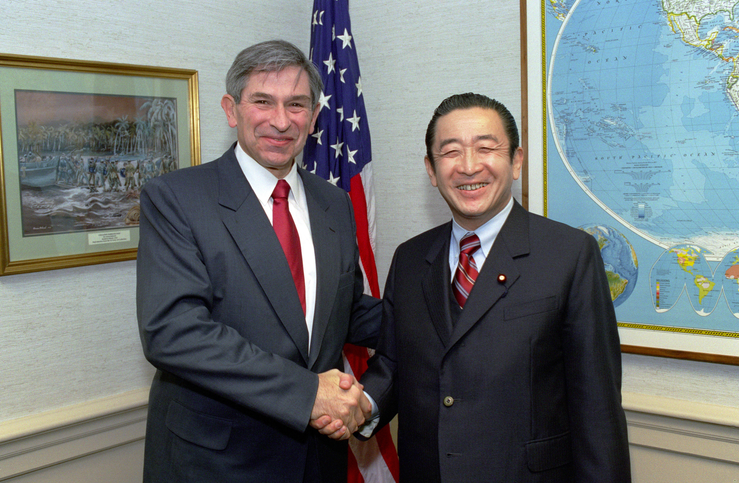 The Honorable Paul Wolfowitz (left), U.S. Deputy Secretary of Defense, poses for a photograph with former Japanese Prime Minister Ryutaro Hashimoto, during his visit at the Pentagon, Washington, D.C., on Oct. 16, 2002. OSD Package No. A07D-00667 (DOD Photo by Robert D. Ward) (Released)